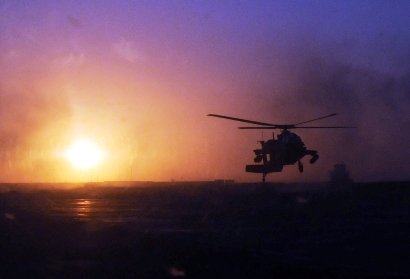 159th Combat Aviation Brigade Commander Col. Todd Royar and Executive Officer Maj. Travis Habhab land their AH-64 Apache as the sun sets over Kandahar Airfield, Afghanistan, Christmas Day. The two leaders spent the holiday visiting with the brigade's soldiers who are spread across southern Afghanistan providing rotary-wing aviation support and forward arming and refueling capabilities. The 159th CAB is deployed from Fort Campbell, Ky., and is scheduled to redeploy shortly after the New Year.